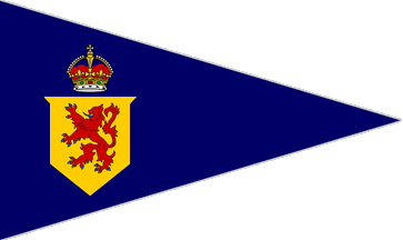 Burgee of the Royal Clyde Yacht Club